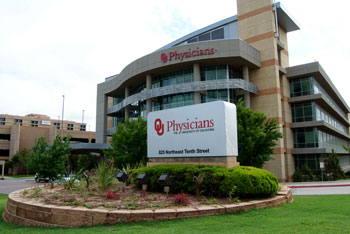 A view of the OU Physicians Building. OU Physicians Building at OU Medicine.